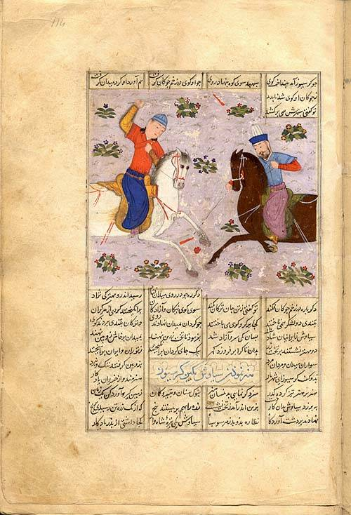 Shahnama (Leiden University Library, The Netherlands. Or. 494, f114a. Oriental manuscript, donated by Levinus Warner). Polo players